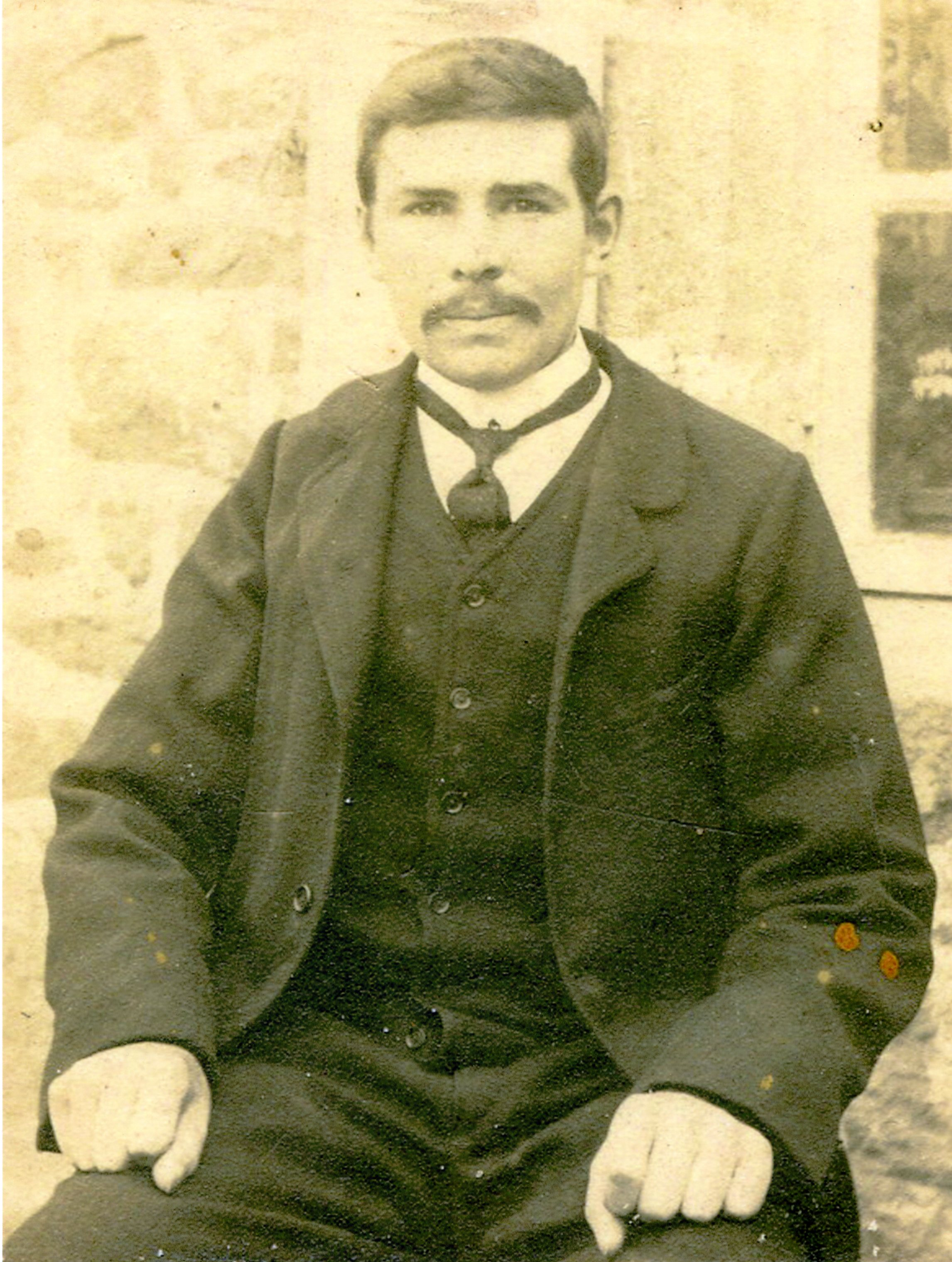 Portrait de Edwin Mackinnon Liébert